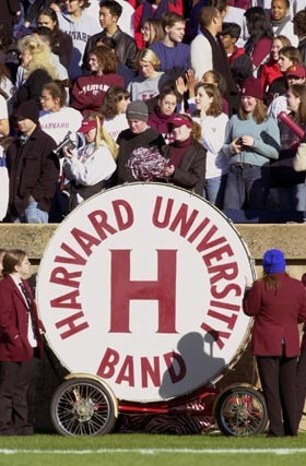 Photo of the Harvard University Band Big Bass Drum Known as "Big Bertha"